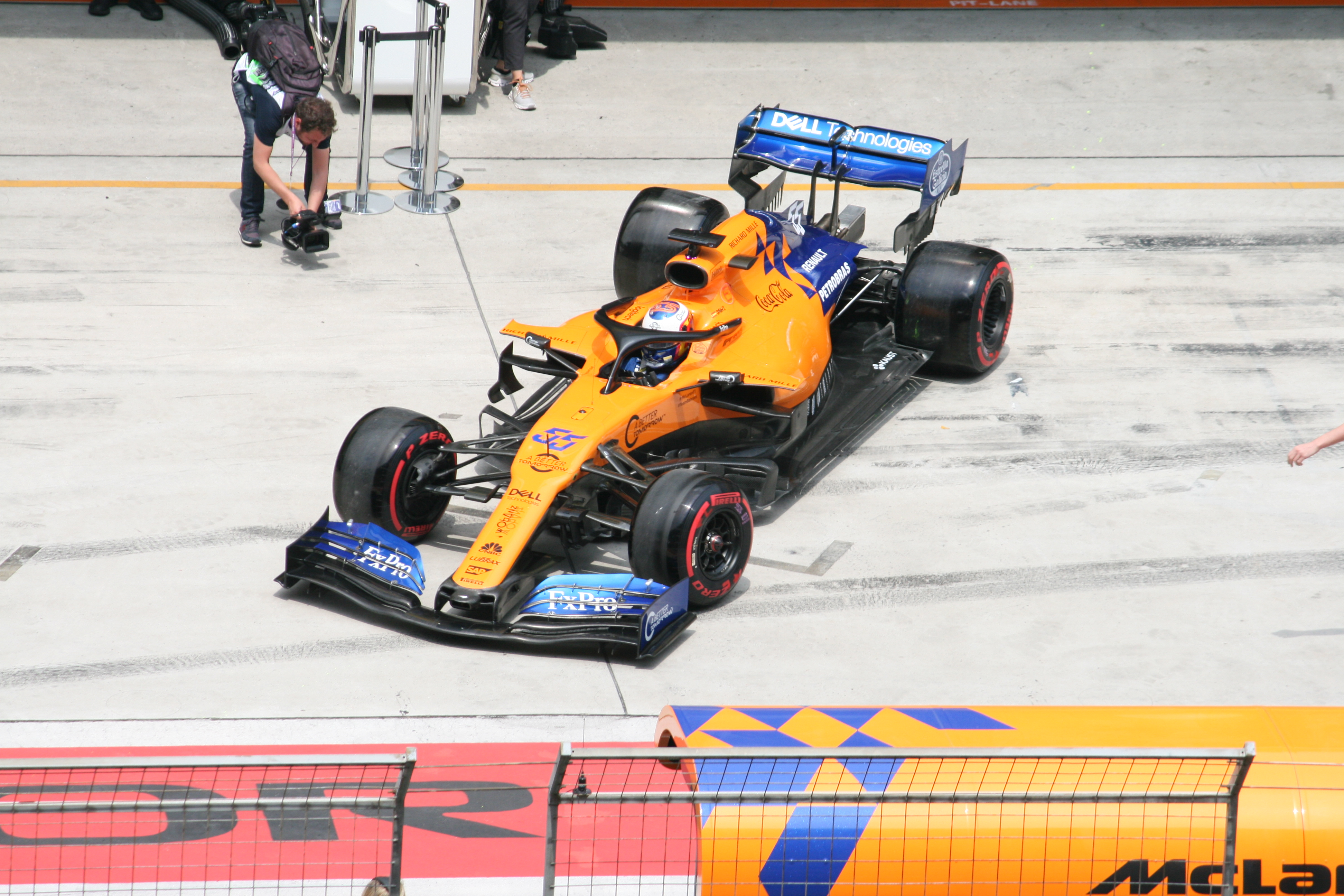 Carlos Sainz, 2019 Chinese GP